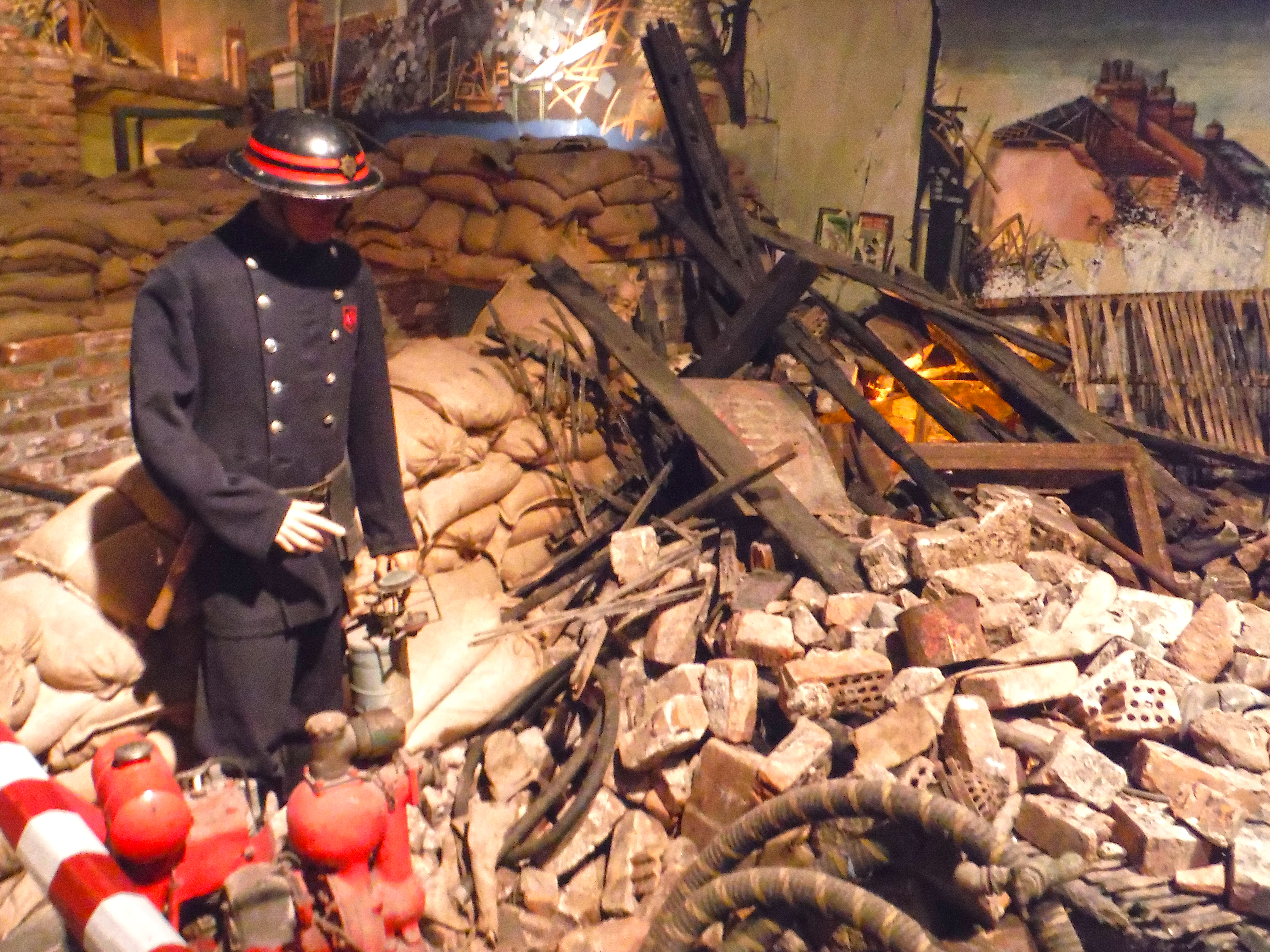 Helston : Flambards - Britain in the Blitz